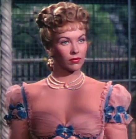 Andrea King in Buccaneer's Girl - trailer (cropped screenshot)